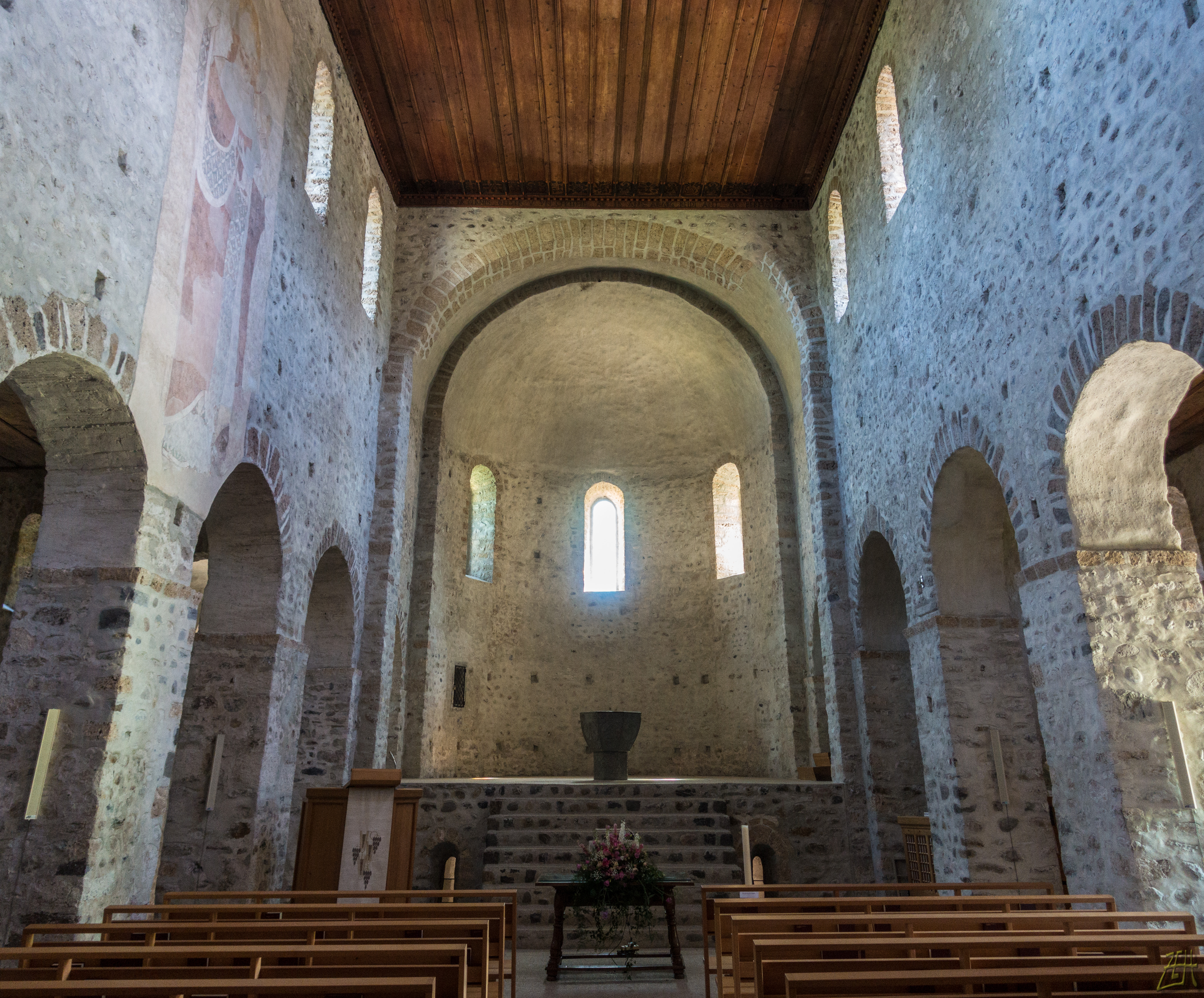 Inside the Amsoldingen church - 1